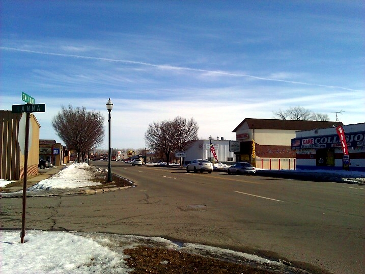 Commercial business restaurants along Oakwood Boulevard in Melvindale, Michigan. View from the northwest corner of Oakwood Boulevard and Hannah Street, looking southeast.